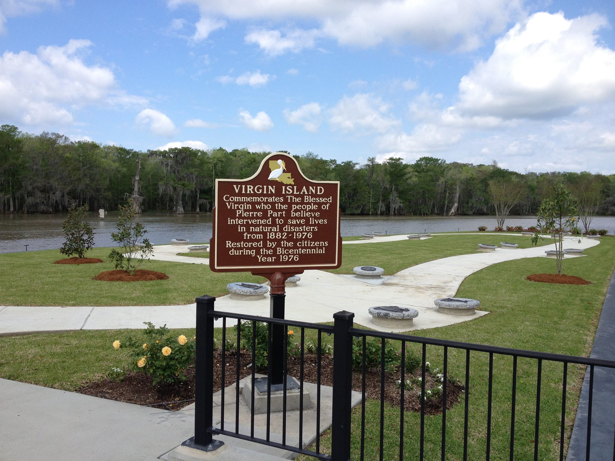 The Virgin Island, located in Pierre Part, Louisiana